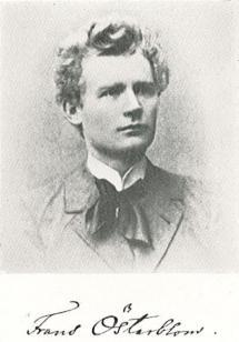 Photograph and signature of poet and teacher Frans Österblom (1870–1907).